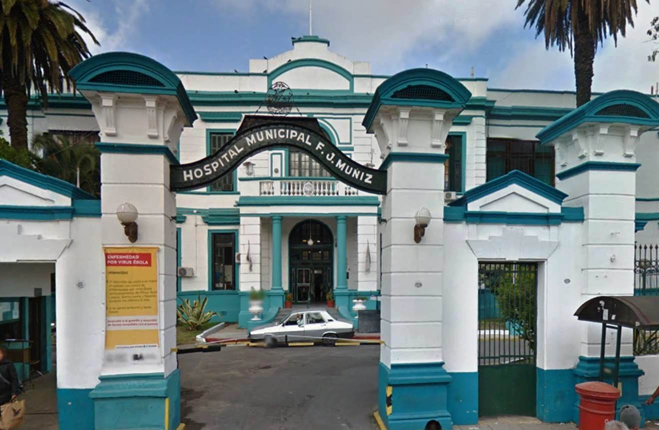 Photograph of the main gate to Hospital Muniz